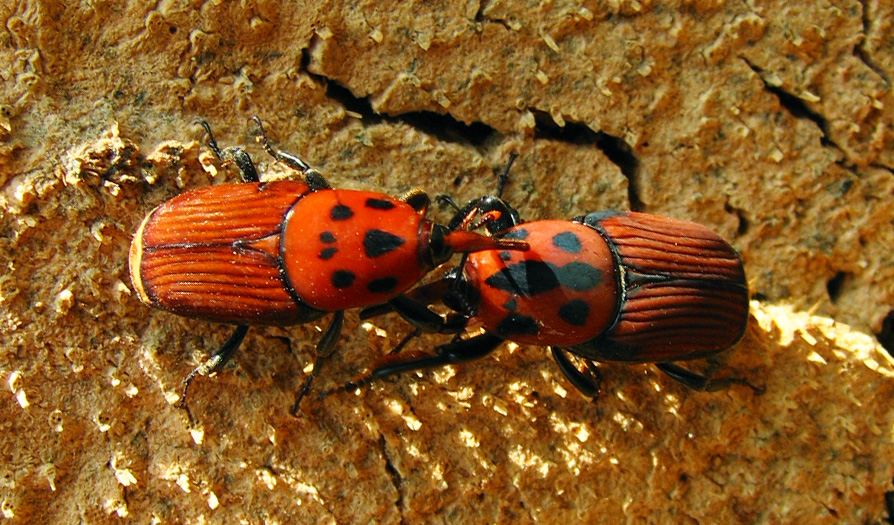 Beetles unknown